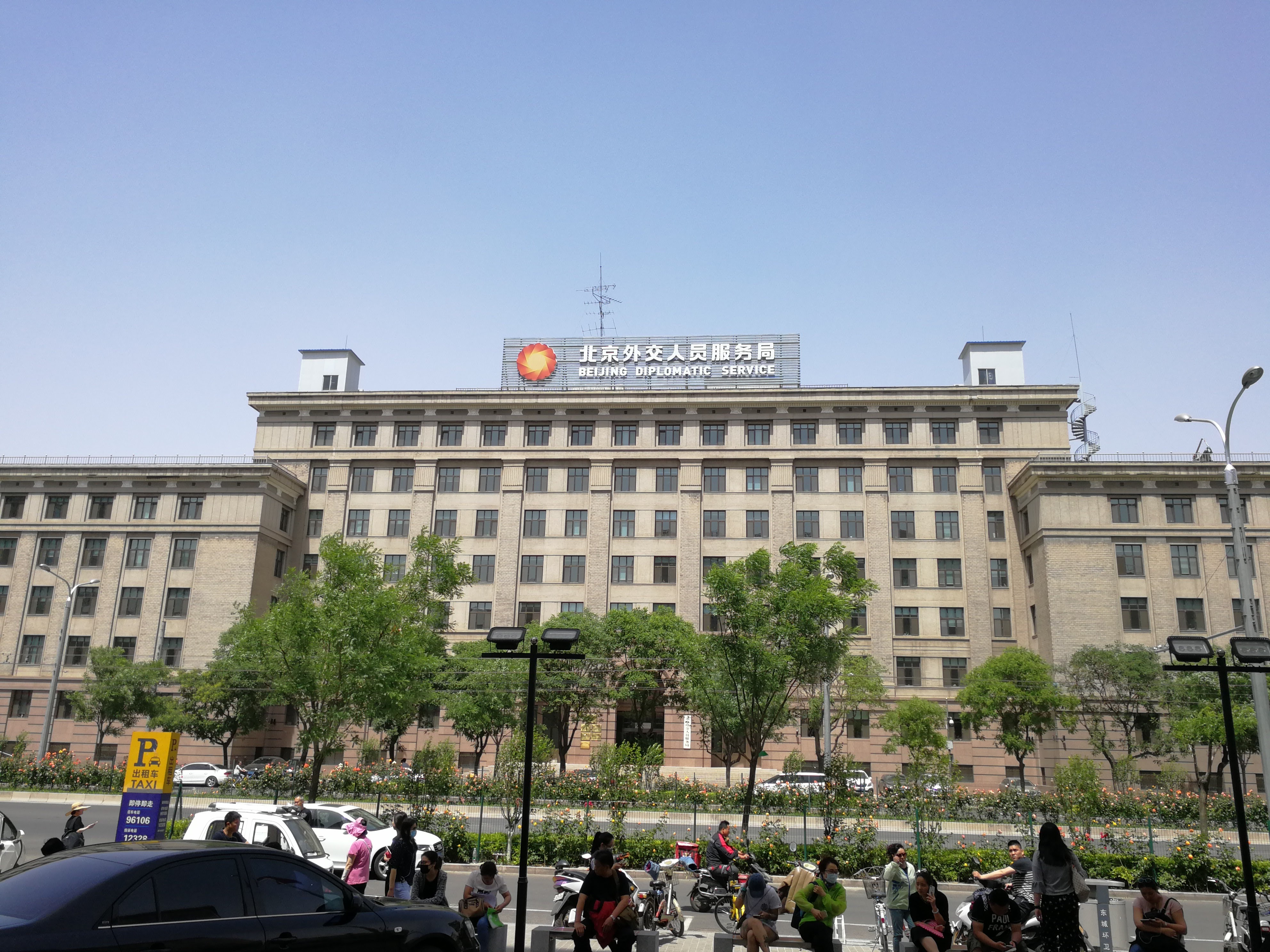 Beijing Service Bureau for Diplomatic Missions building